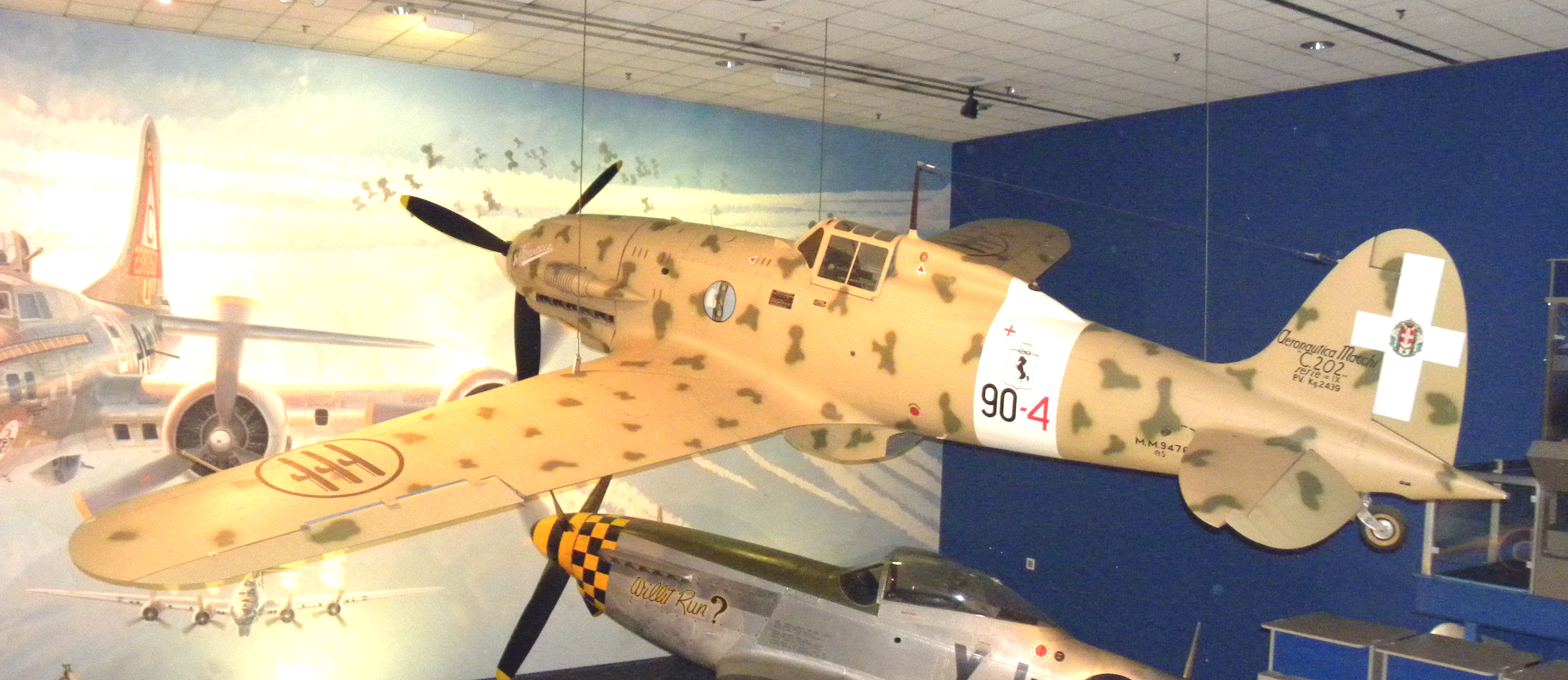 Macchi C202 Folgore fighter at Smithsonian Air & Space Museum.